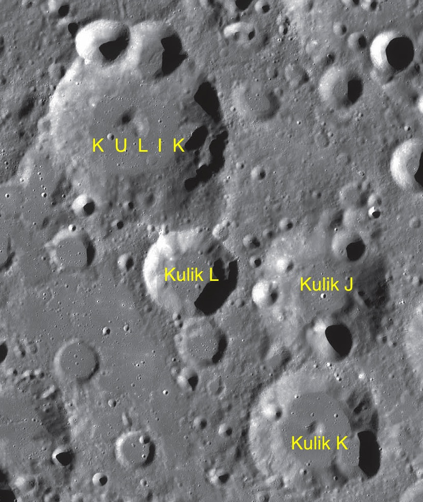 Part of the chart LAC-34 used for the presentation